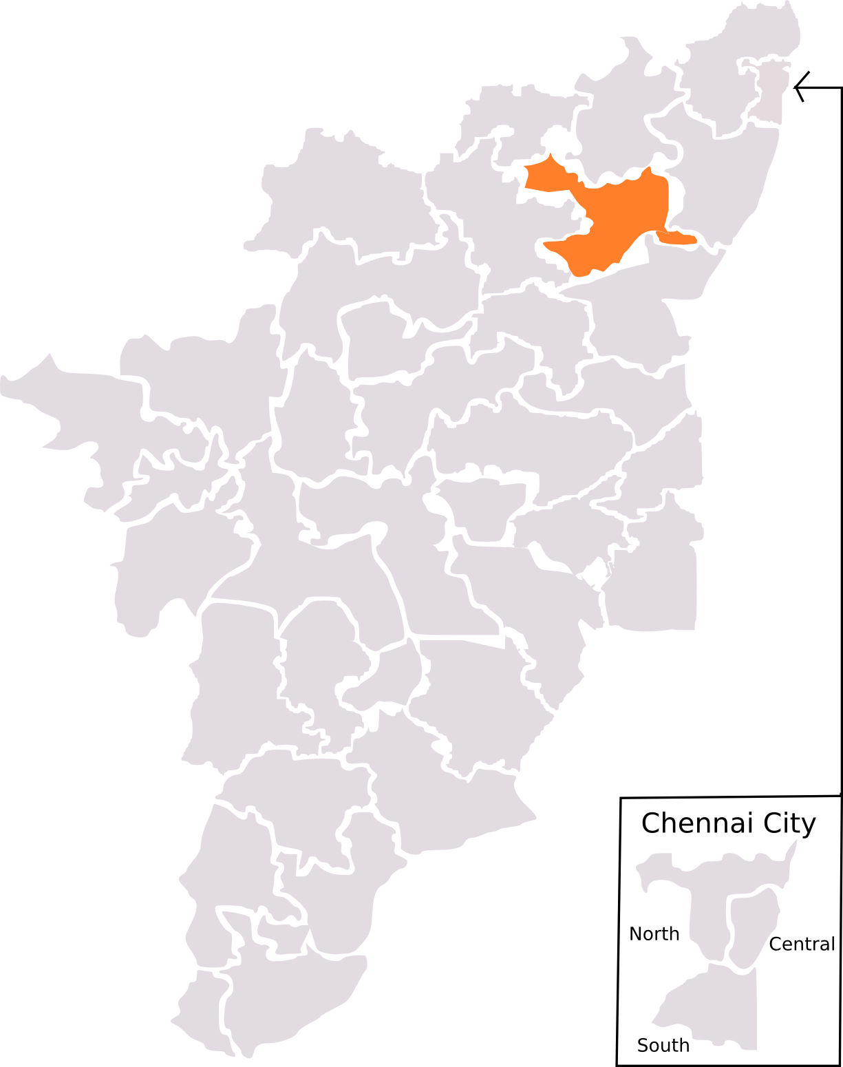 Lok Sabha Election map for Tamil Nadu that illustrates constituencies put in place by 1971 delimitation that was replaced in 2008. Map is based on ECI drawn map.